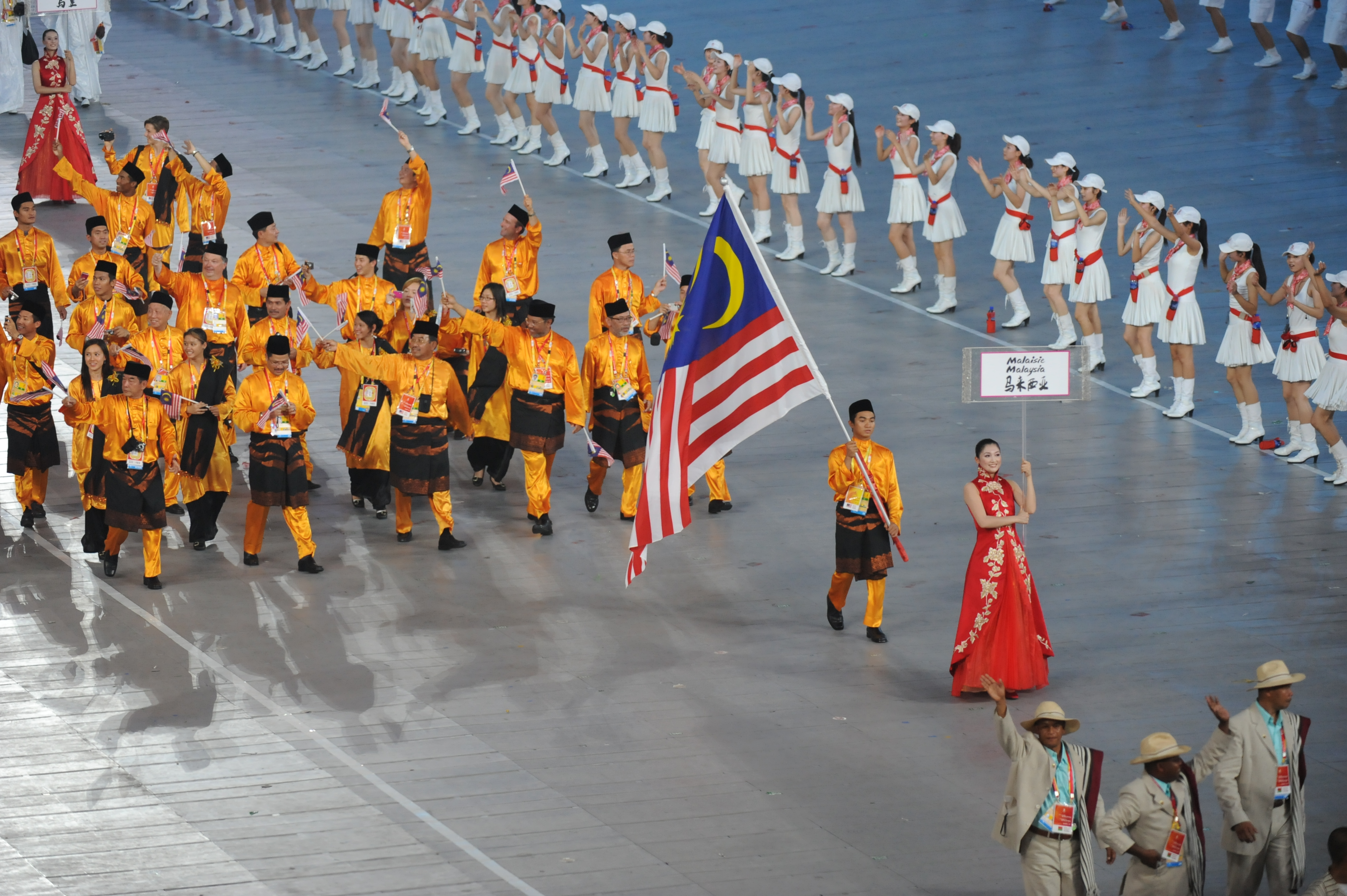 2008 Summer Olympics - Opening Ceremony - Malaysia